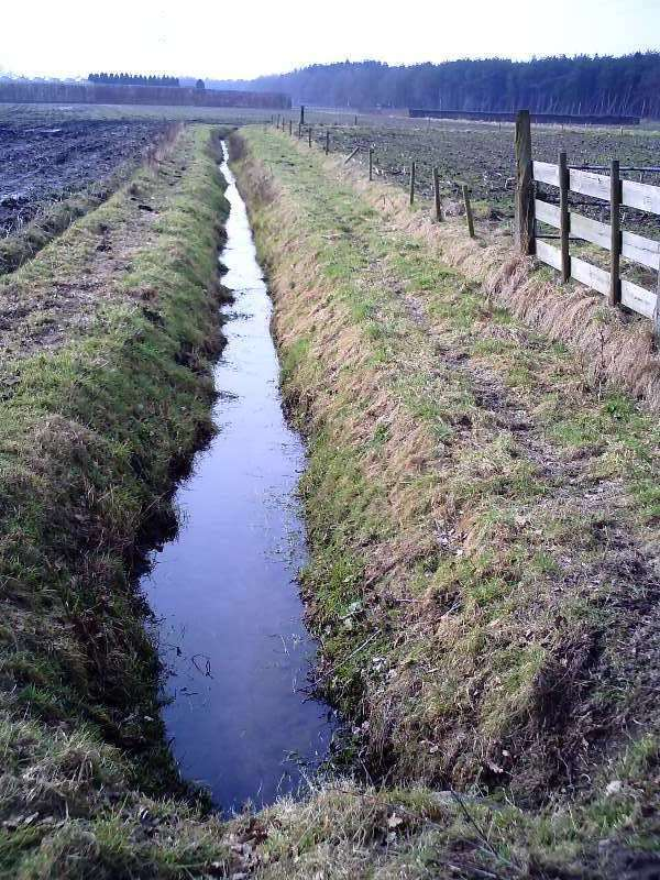 Headwater of the Gender stream north of Steensel, The Netherlands; view to the west-northwest (upstream). The uppermost reaches of the stream can be seen in the distance, indicated by the dried-grass verges along the bank: coming from the background in the middle of the picture, in front of the trees, nearly reaching the right edge of the picture, then cutting a right angle to the south (the viewer's left), back to the middle of the photo again and cutting a right-angle corner again to flow east, towards the viewer. The present-day, semi-artificial course of the Gender at this location is the result of large-scale land consolidation and related stream channelisation projects of the 1950s and 1960s.